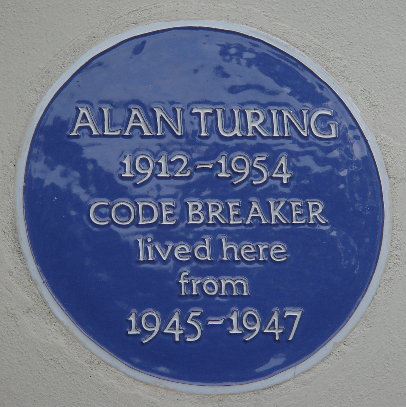 Alan Turing 78 High Street Hampton blue plaque